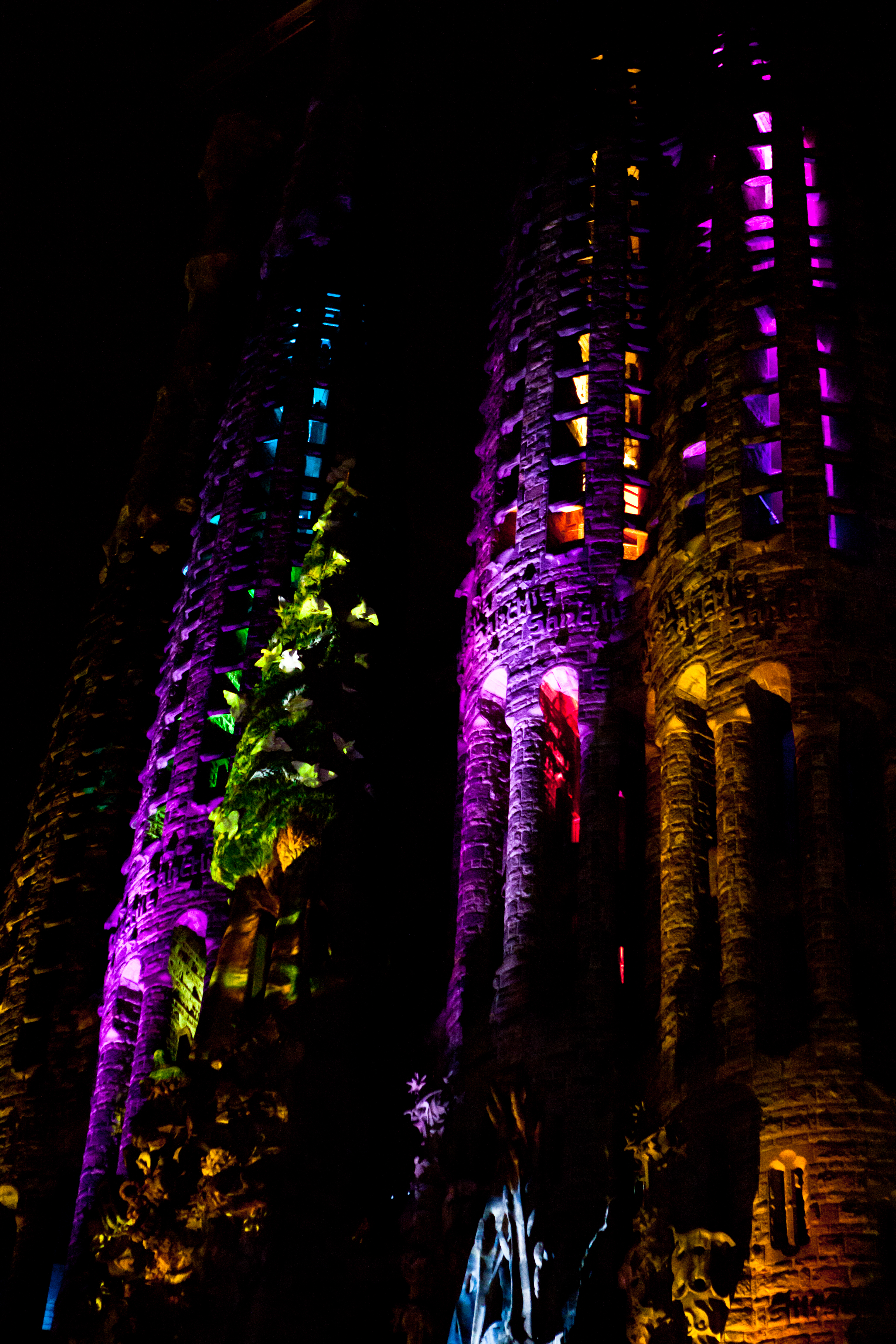 Sagrada Familia. Projection mapping created by the Montreal-based company Moment Factory. Year 2012.